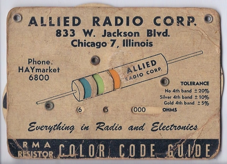 RMA (Radio Manufacturers Association) Resistor Color Code Guide by Allied Radio Corp. of Chicago, Illinois. Circa 1945-1955.